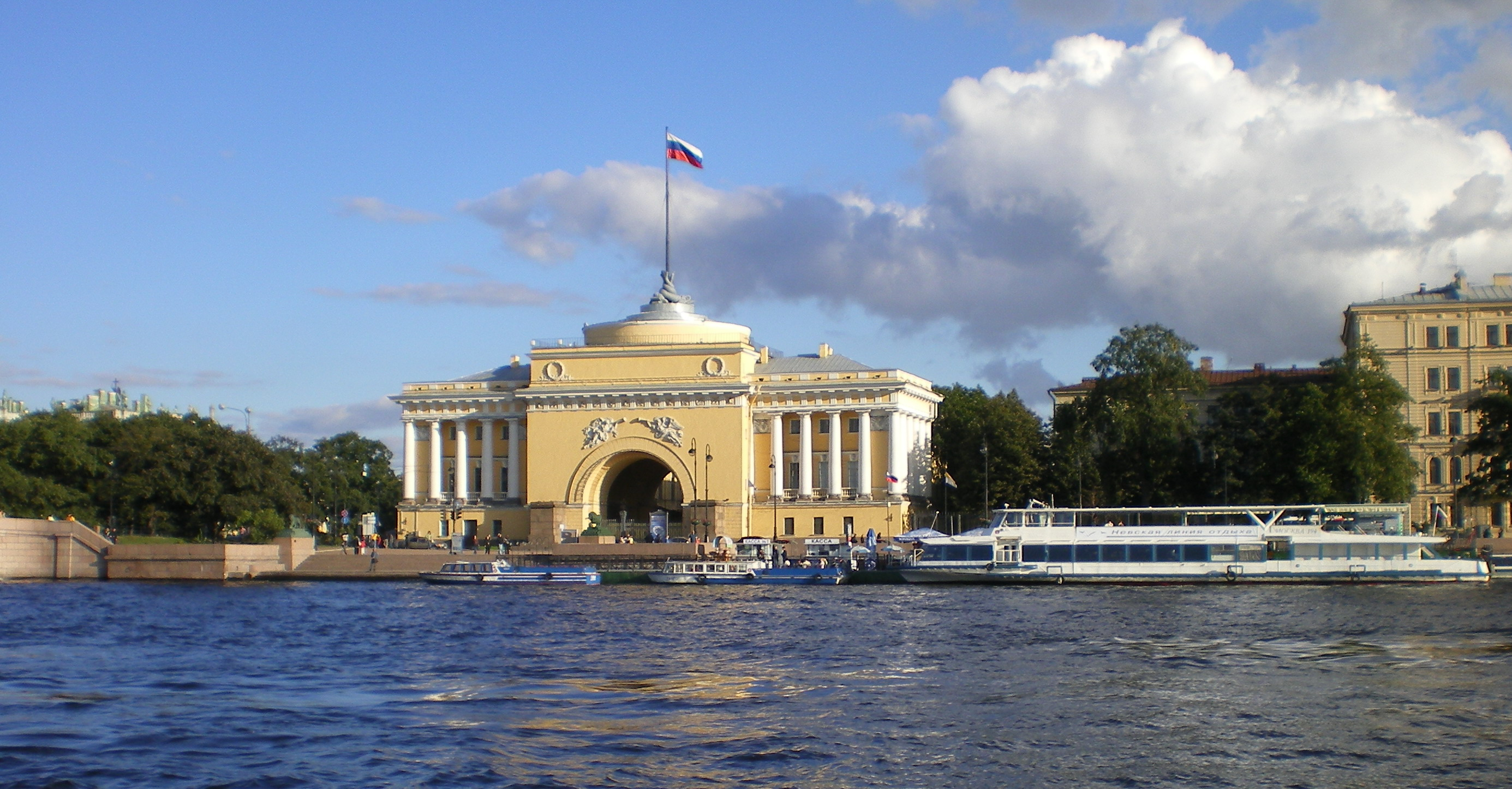 Admiralty Embankment in St.-Petersburg